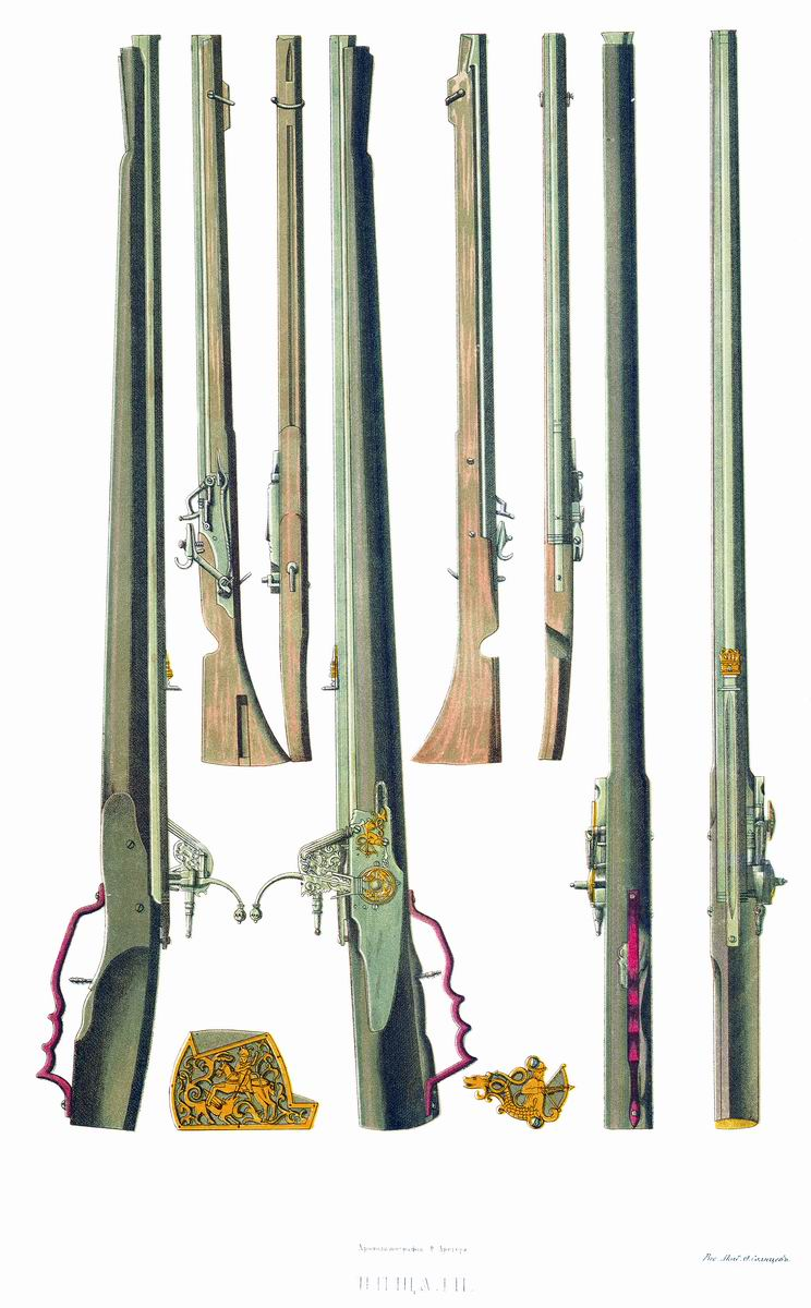 Old Russian muskets.